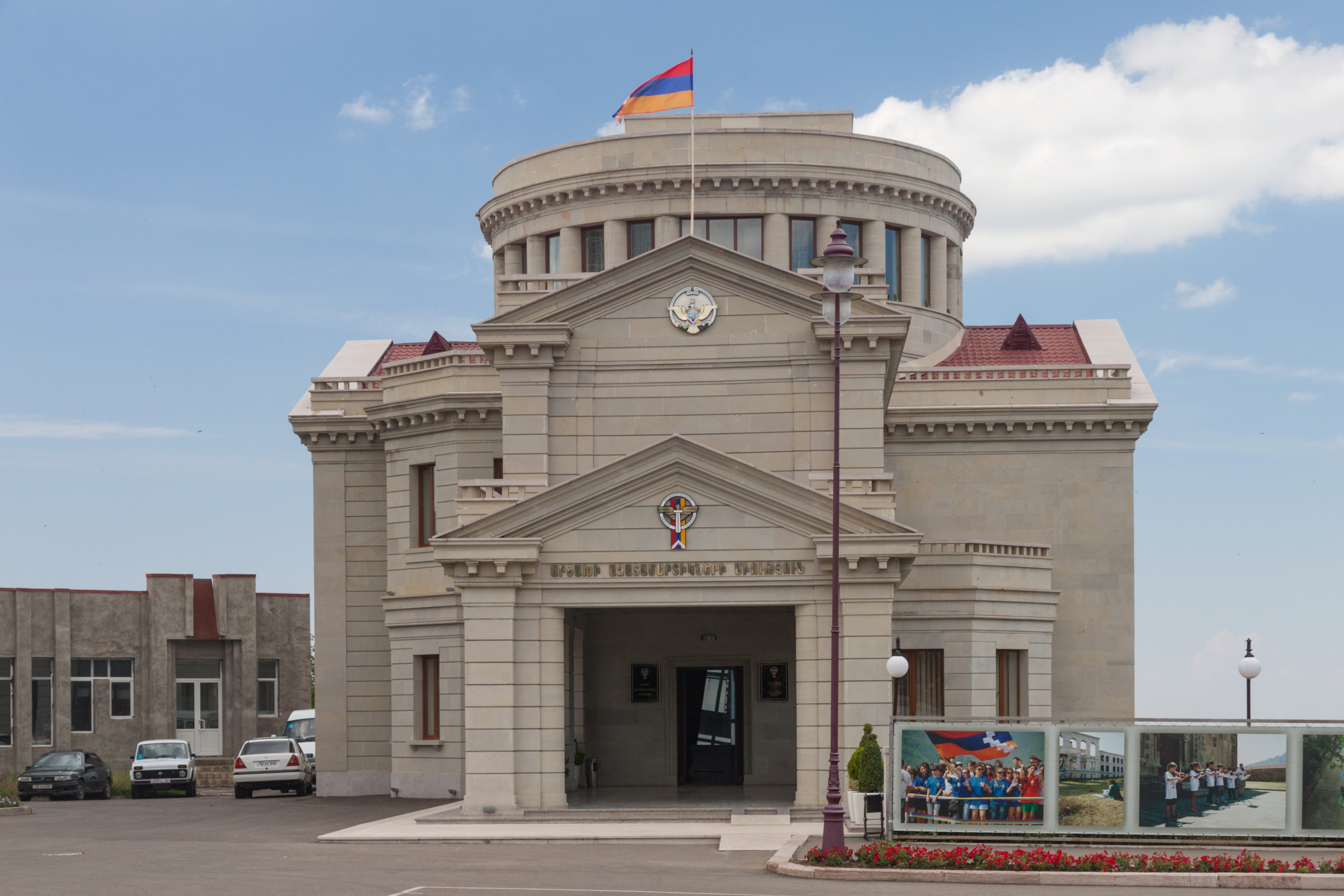 Building of the Union of Artsakh Freedom Fighters. Stepanakert/Xankəndi, Nagorno-Karabakh.